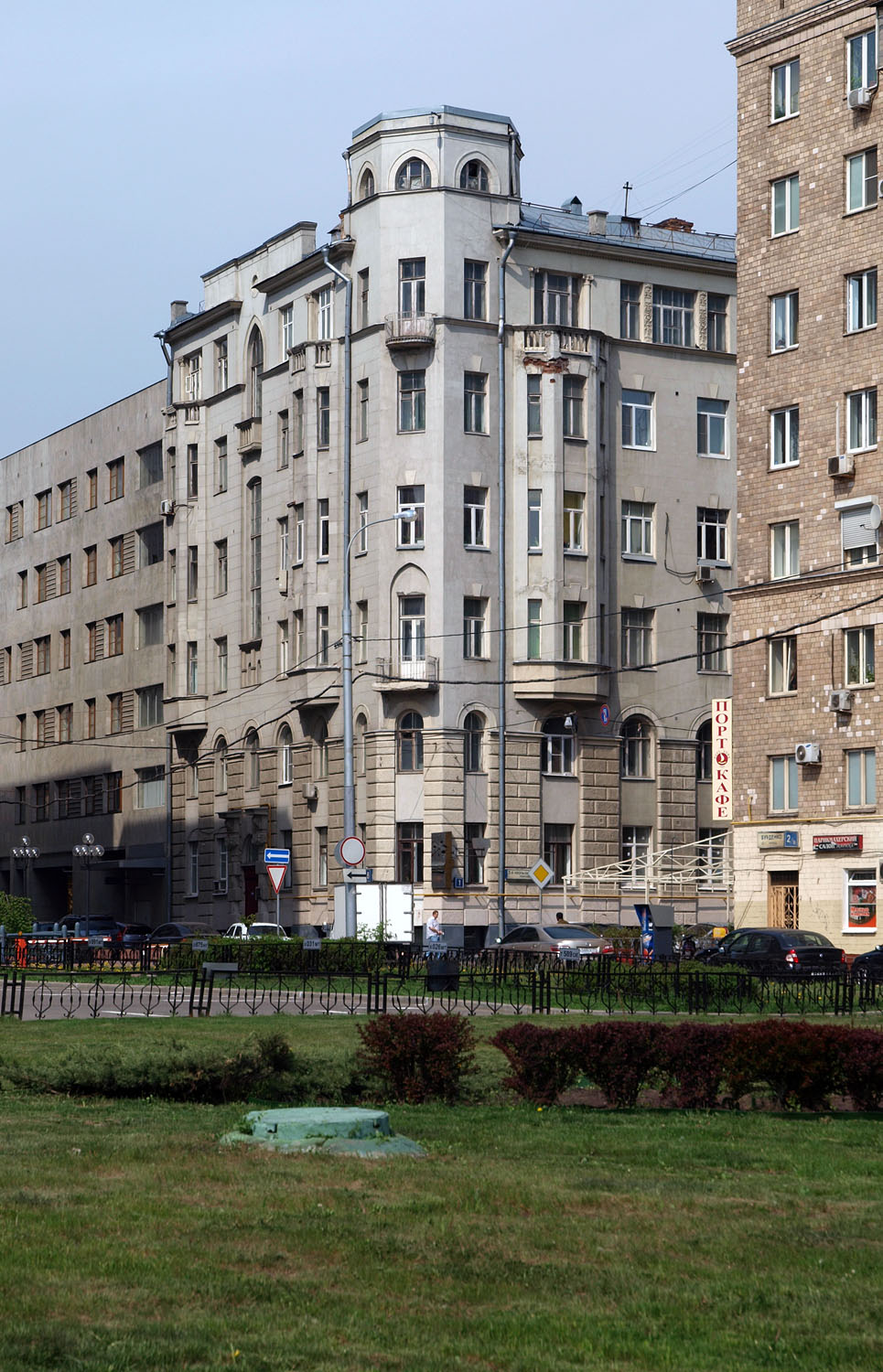 Kandinsky's place in Moscow (near Zubovskaya square). Kandinsky lived here (in style as you might guess) in 1915-1921